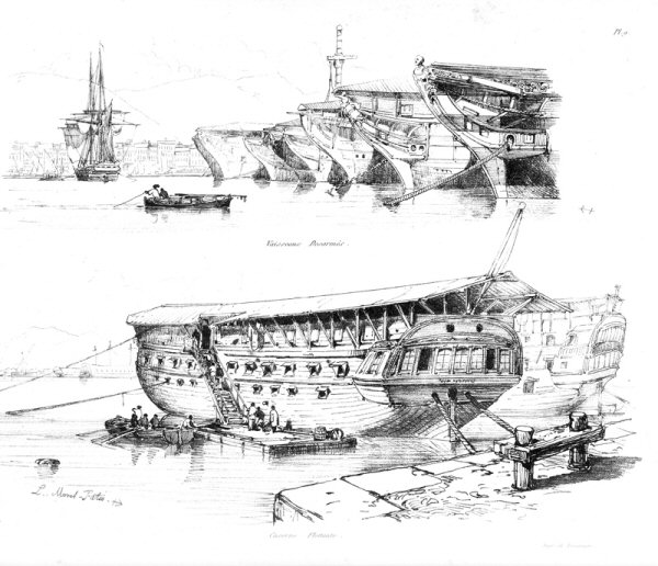 Decommisioned Ships - Barracks hulk